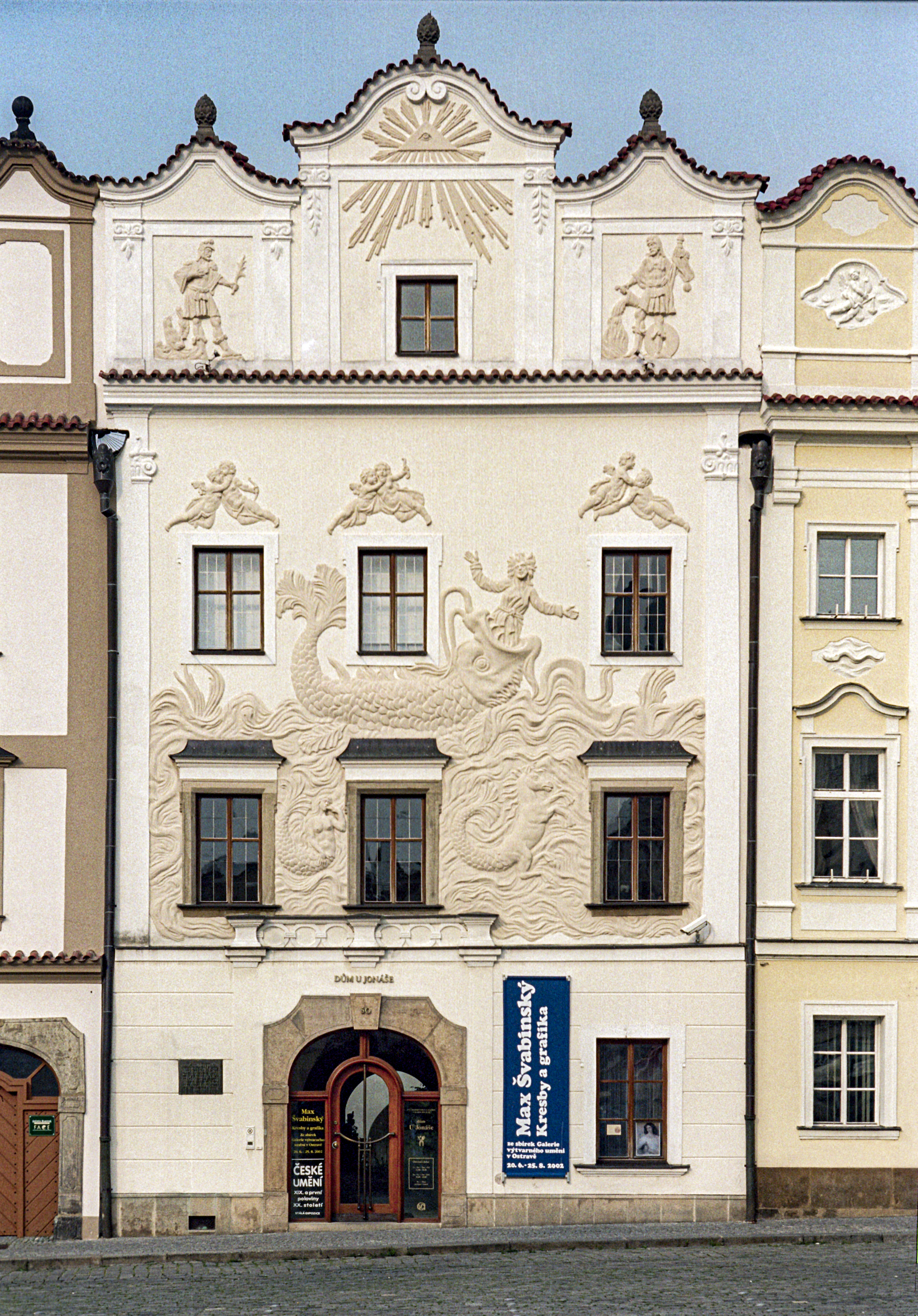 House with the relief of Jonah being swallowed by the whale, Pernstejn square, Pardubice